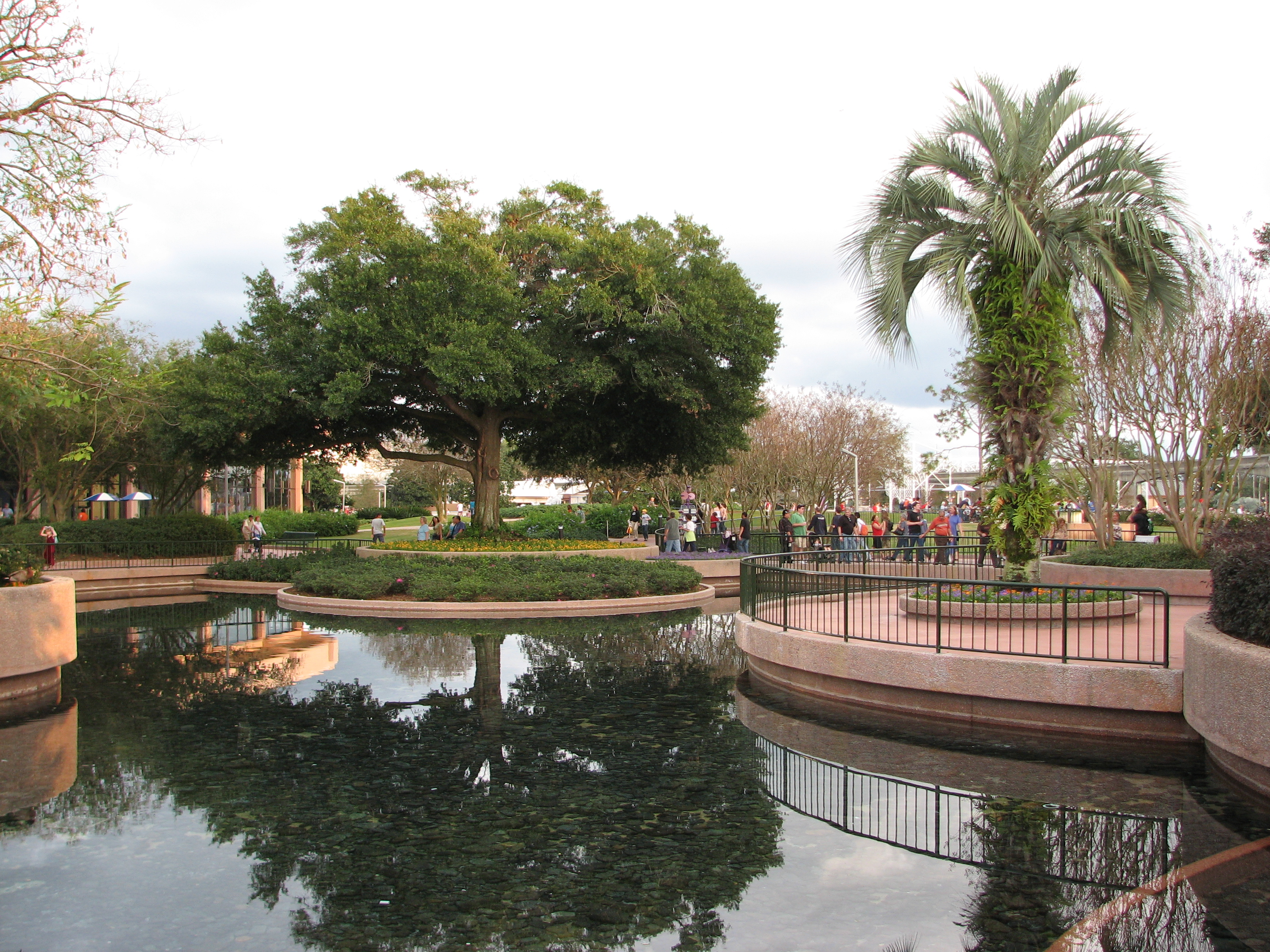 The landscaping in Future World West in Epcot at Walt Disney World. Compared to the East section, the West contains a lot of water and trees, and uses more gentle curves.